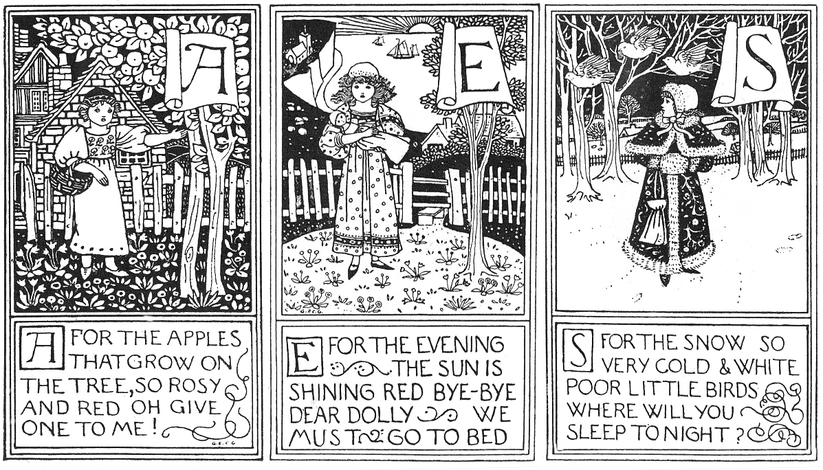 From University of Florida more about this artist